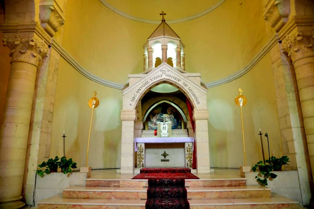 Armenians In Jerusalem